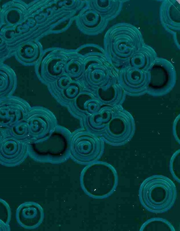 Hantz-reactions 3d primary patterns in a Petri dish, NaOH+CuCl2 reaction in PVA gel.